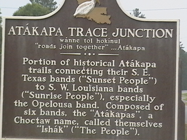 Roadside sign in the community of Junction, Louisiana, at the intersection of LA 111 and Wikipedia:U.S. Route 190